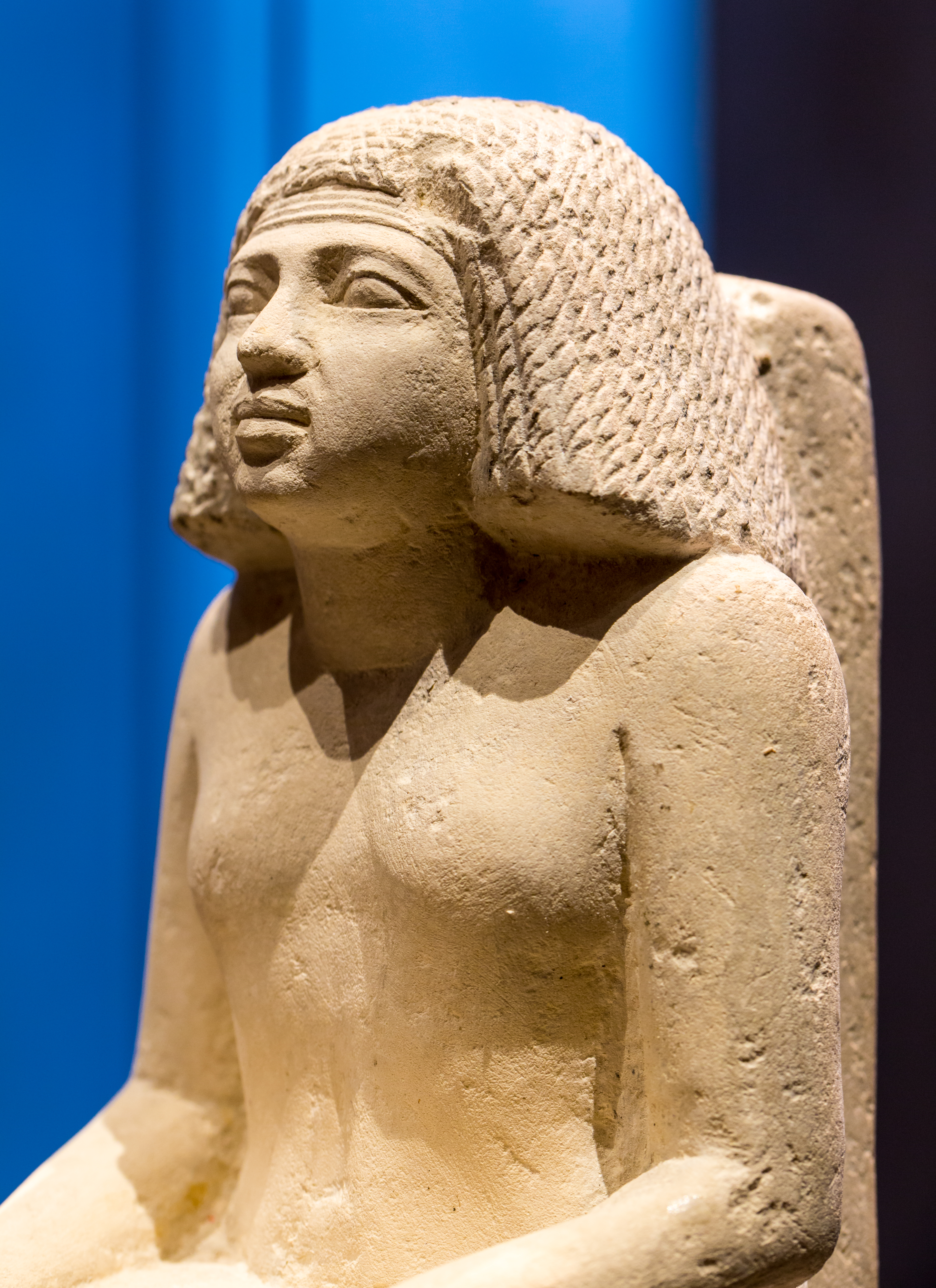 object type: portrait statuette - description: Nefret-jabet, sitting on a throne - production place: Egypt - period / date: Old Kingdom, 4. dynasty, ca. 2500 BC - material: limestone - height: 36,4 cm - findspot: Gizal tomb of Nefret-jabet, east of the pyramid of Cheops - museum / inventory number: München, Staatliches Museum Ägyptischer Kunst ÄS 7155 - bibliography: Sylvia Schoske, Dietrich Wildung, Das Münchner Buch der Ägyptischen Kunst, München 2013, 40-41, fig. 30 - Please note: The above museum permits photography of its exhibits for private, educational, scientific, non-commercial purposes. If you intend to use the photo for any commercial aime, please contact the museum and ask for permission.